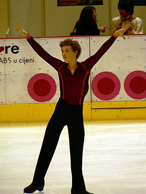 Adam Rippon during his free skate at the 2005 Junior Grand Prix event in Croatia